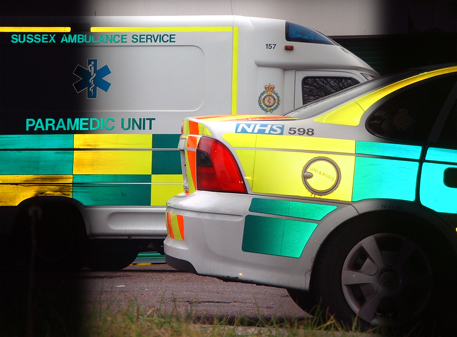 A photomontage of photographs taken of medical emergency vehicles in England. Full flash, partial flash and no flash was used to elicit starkly different levels of contrast from the reflective and fluorescent markings.